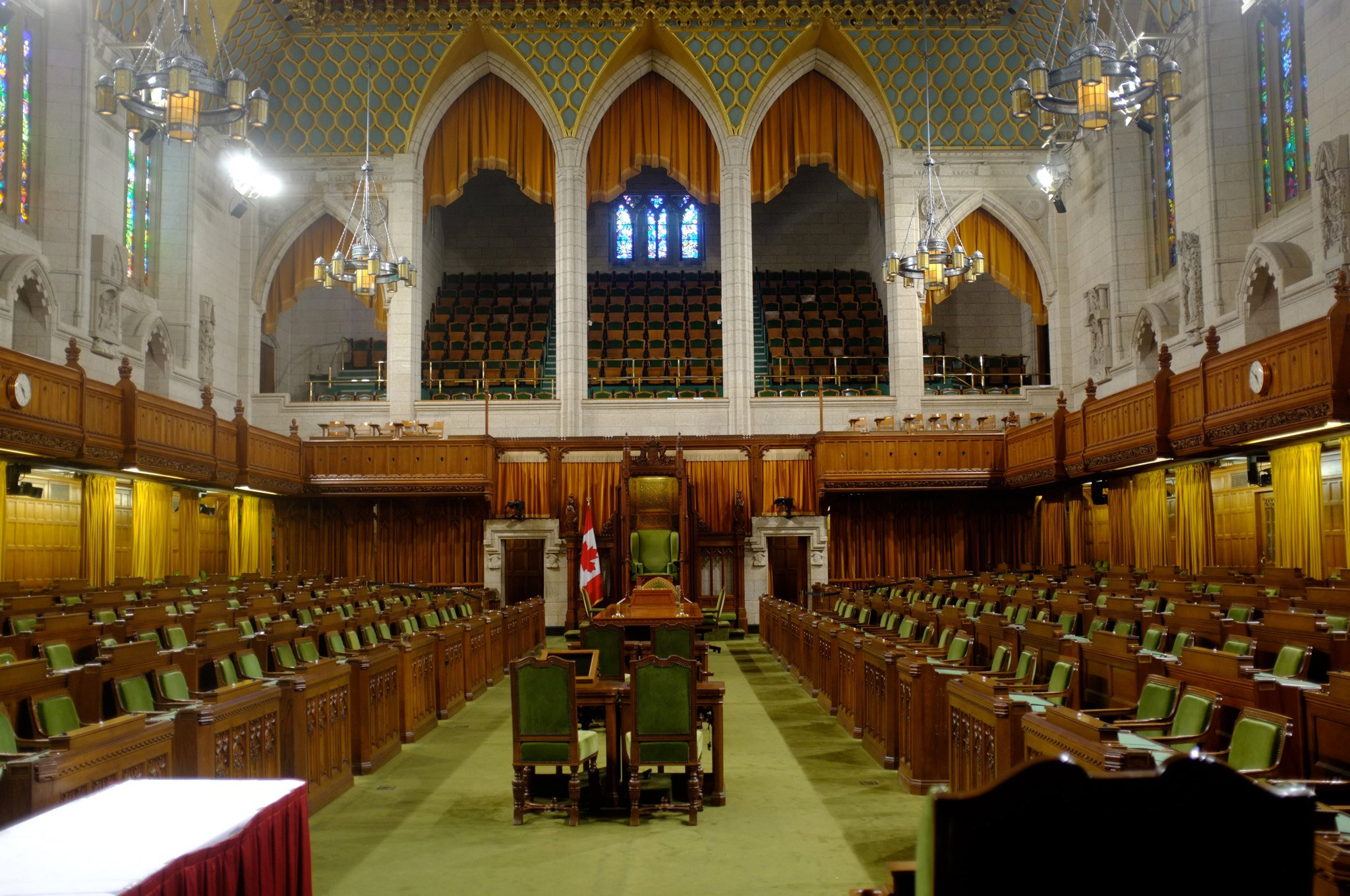 House of Commons, Parliament of Canada